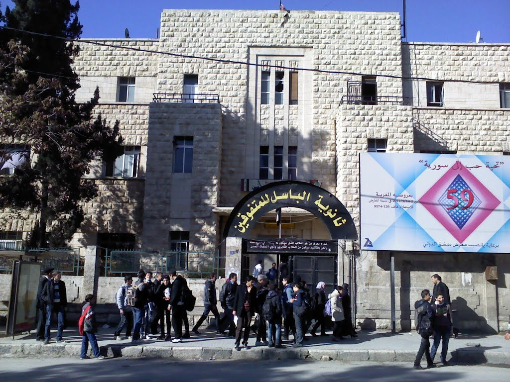 Al-Bassel High School Aleppo, main entrance.